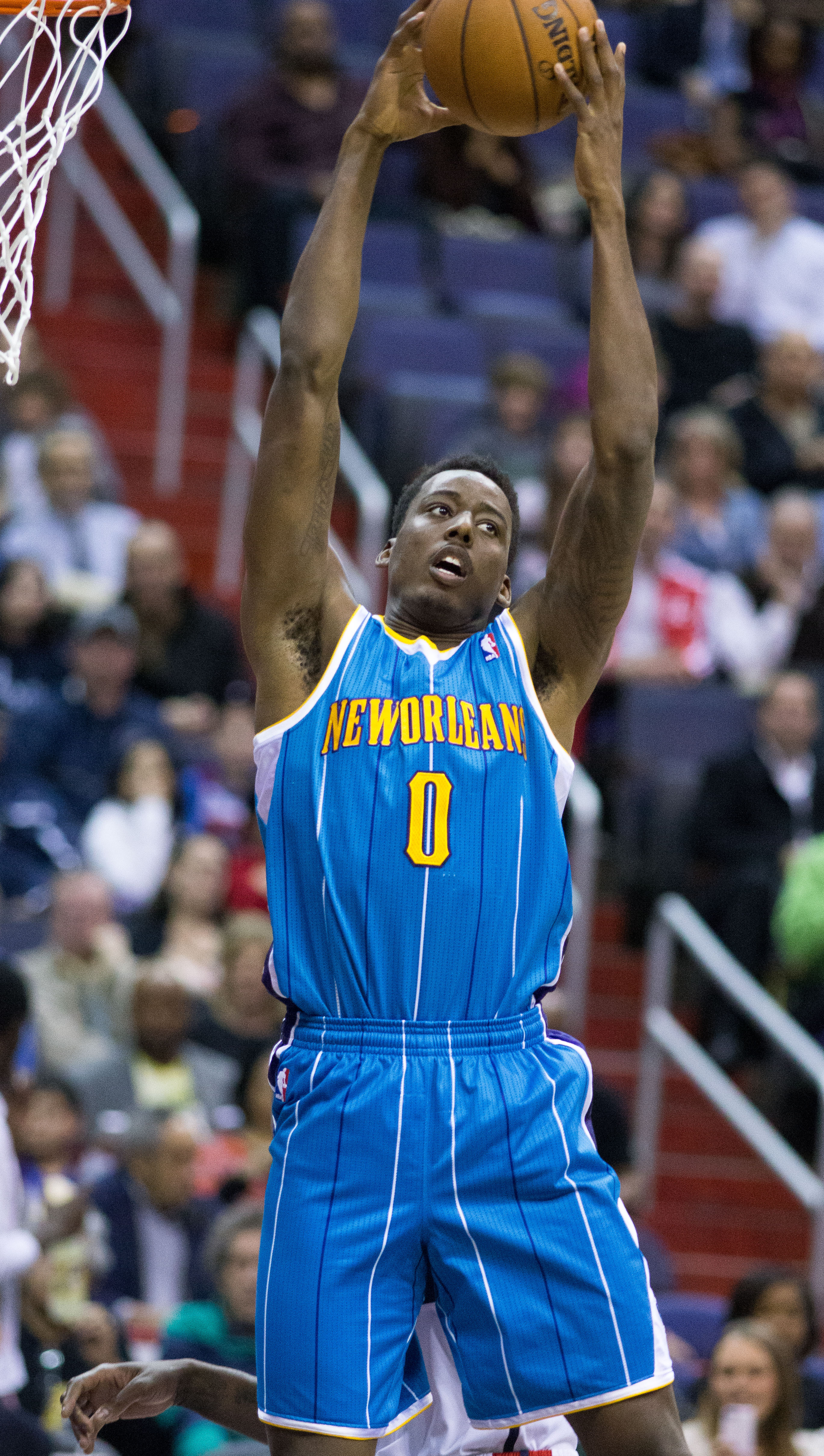 New Orleans Hornets at Washington Wizards March 15, 2013